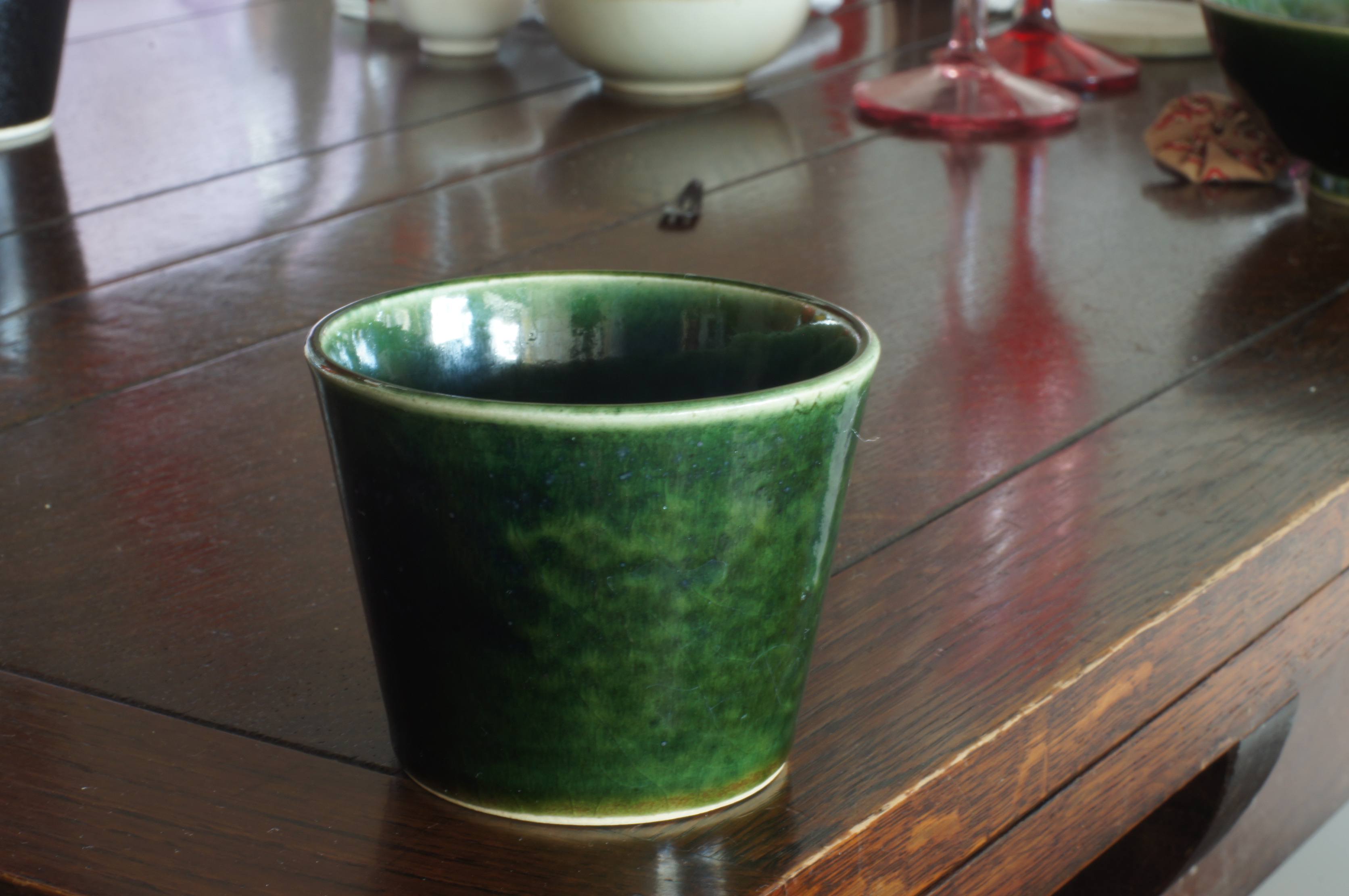 NEX5 + new FD 50mm f1.4